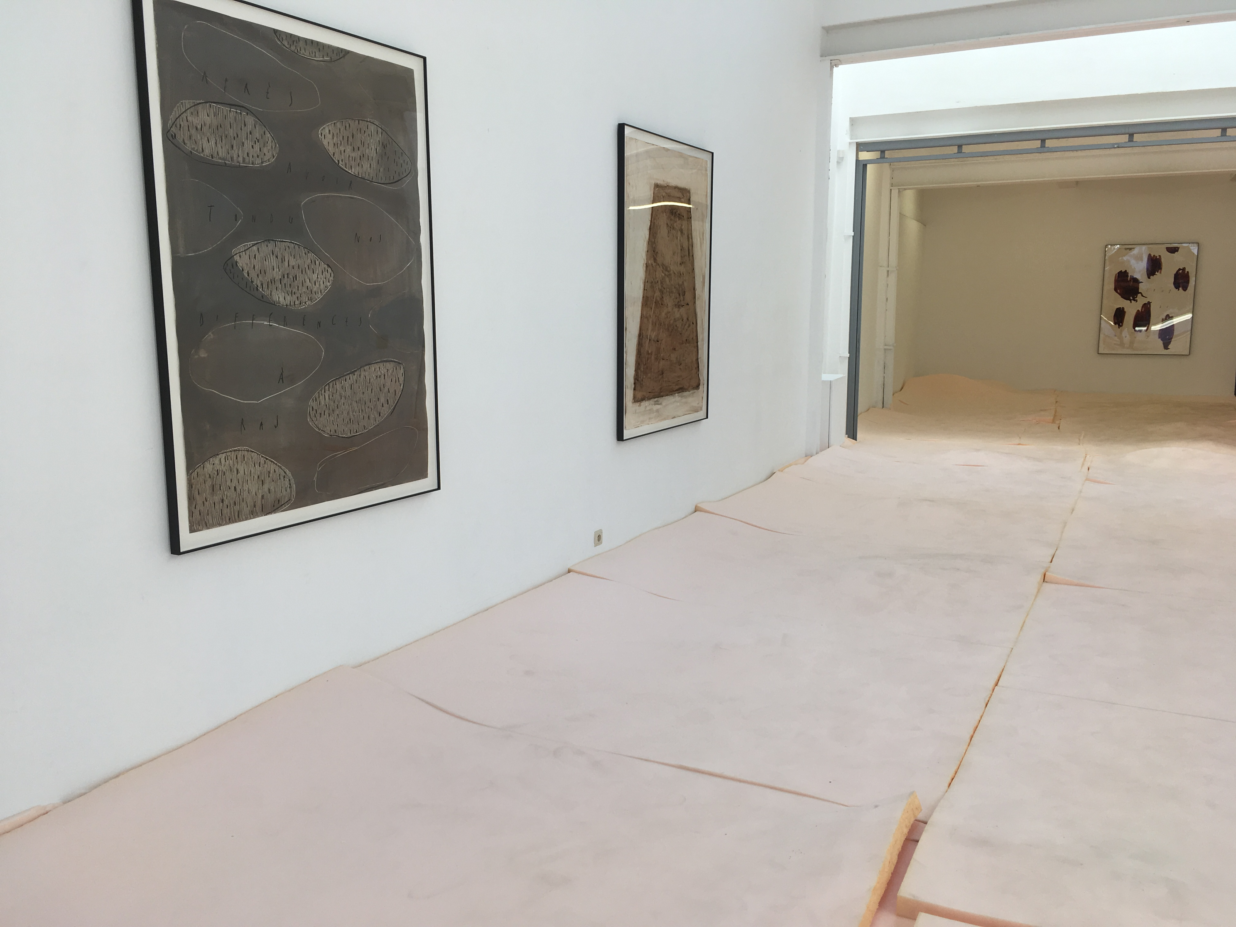 View on the exhibition Trébucheurs – Piétineurs of the artist Arpaïs Du Bois at De Garage in Mechelen, Belgium.